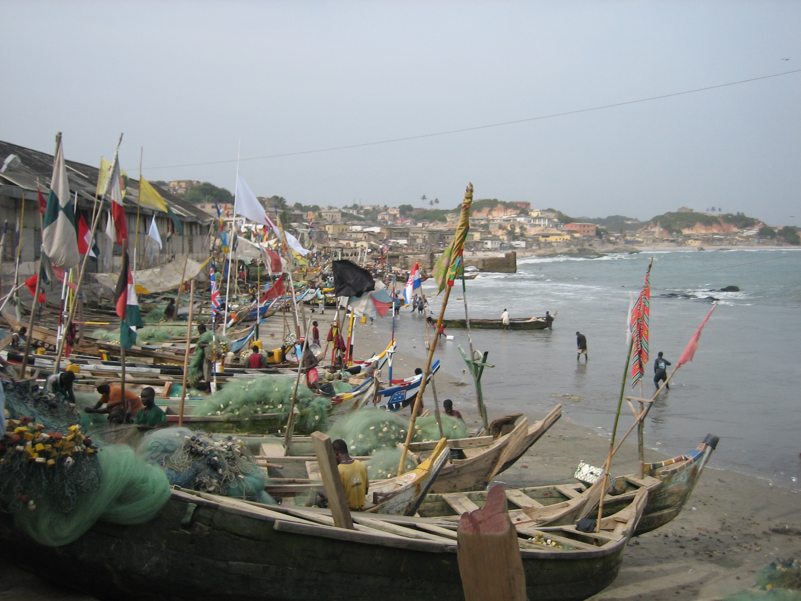 Fishermen